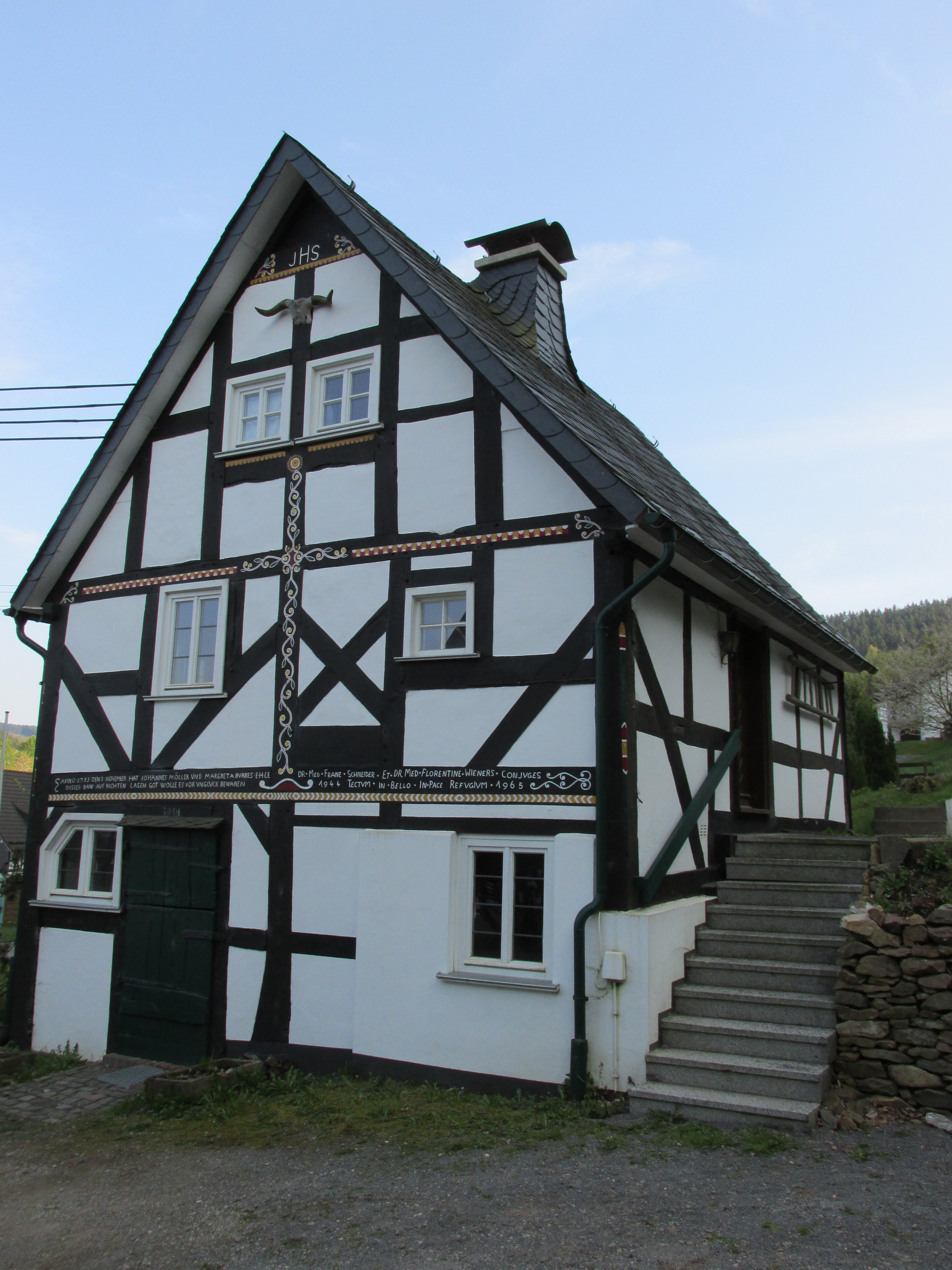 Wirme 12a, Kirchhundem, Germany check usage Address Wirme 12a 57399 Kirchhundem Germany Date19 April 2014SourceOwn work. (→ weitere 1,445 Bilder von mir in der Galerie)AuthorStefan FlöperPermission (Reusing this file) cc-by-sa-3.0, gfdl 1.2+ Attribution (required by the license)Stefan Flöper / Wikimedia Commons / CC-BY-SA-3.0 & GDFL 1.2+ Licensing[edit]